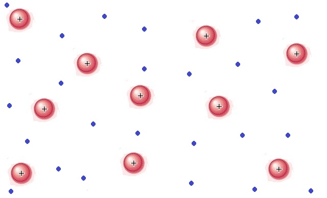 This was drawn to illustrate the subatomic particles present in a portion of plasma, with a delocalized electron "sea", very much like the electron "sea" that is present in conductive metals. It is because of this electron delocalization that plasma is able to conduct electricity.